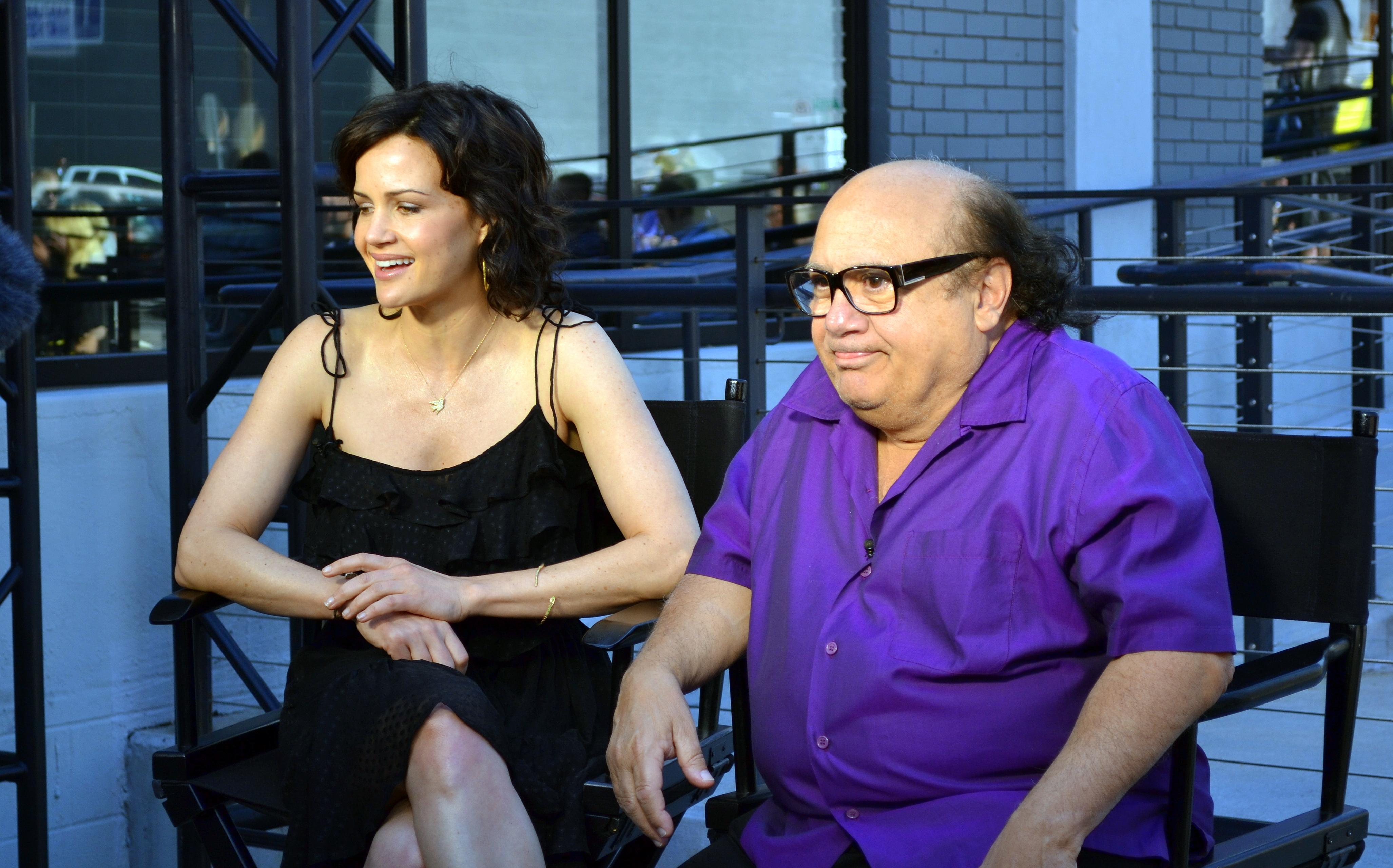 Danny DeVito & Carla Gugino Giving an Interview to CNN 2011.